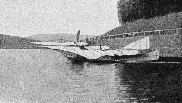 "Snapshot of the Kress Hydro-aeroplane, while Gliding on the Water"; Wilhelm Kress, Aircraft, 3. October 1901, Wienerwaldsee in Tullnerbach, Lower-Austria, Austria